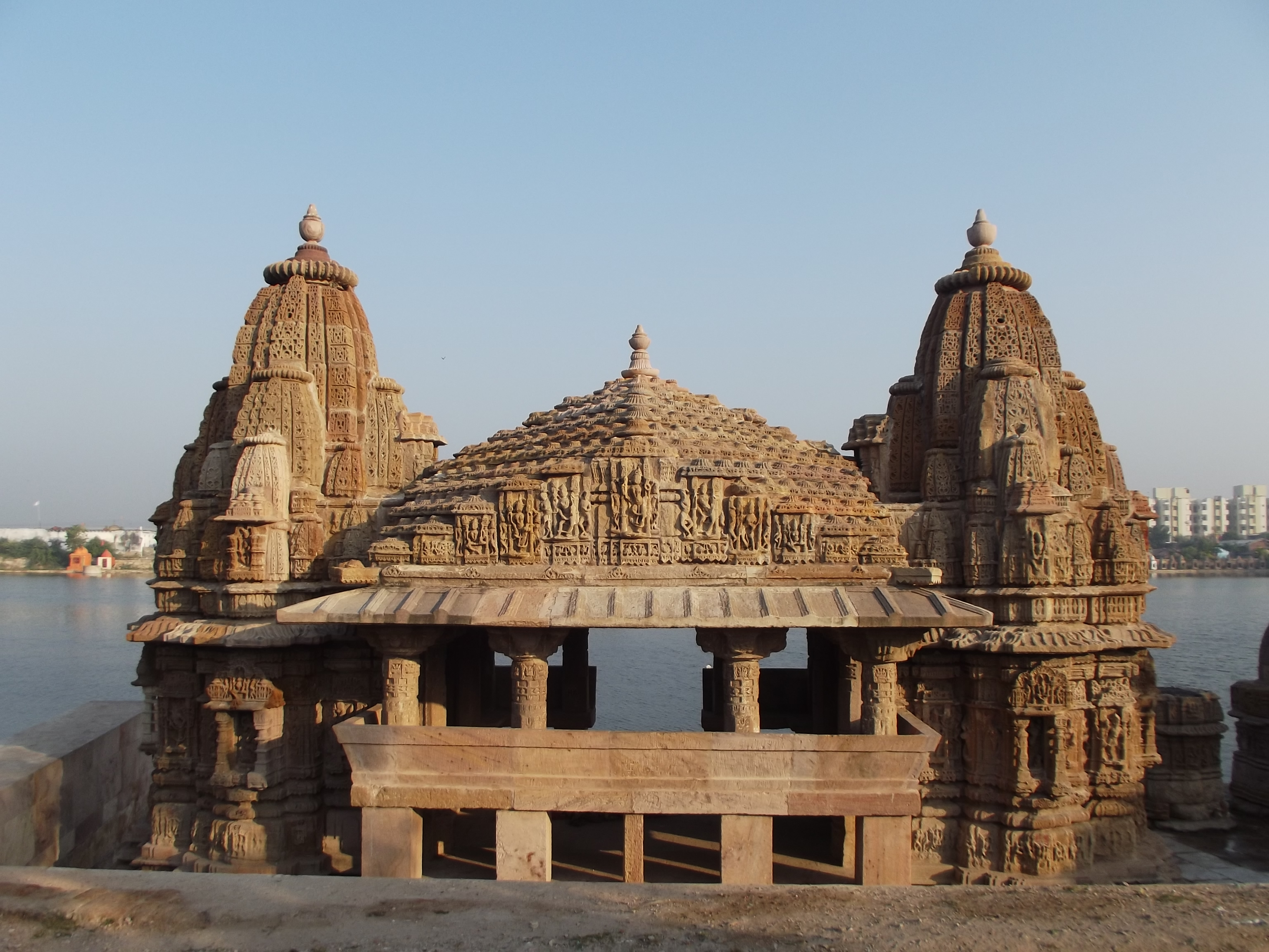 Munsarlake